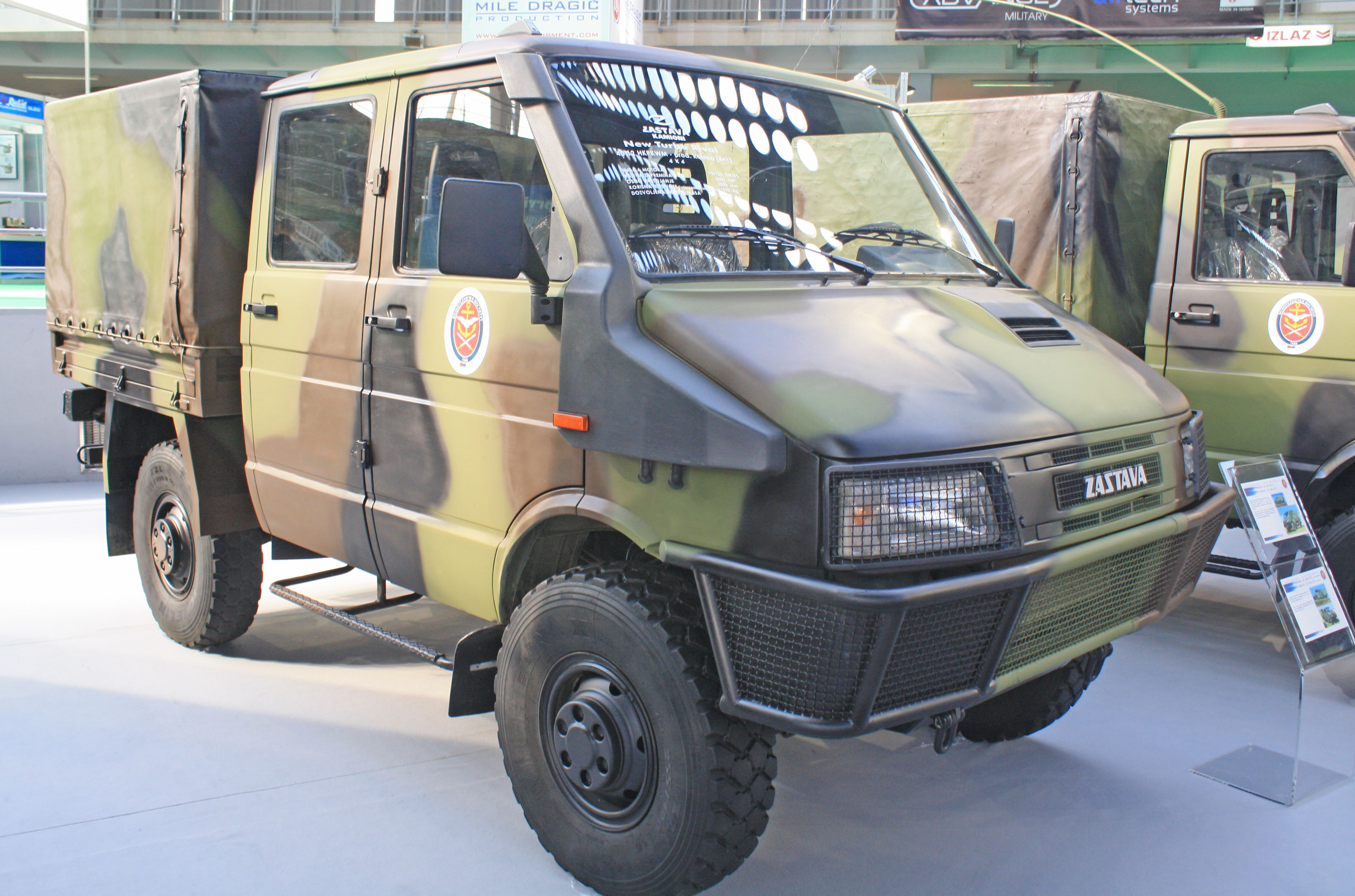 New military truck from Zastava Trucks, NTR 40.12 HKPKWM in 5+1 configuration on display at Partner 2013 military fair.